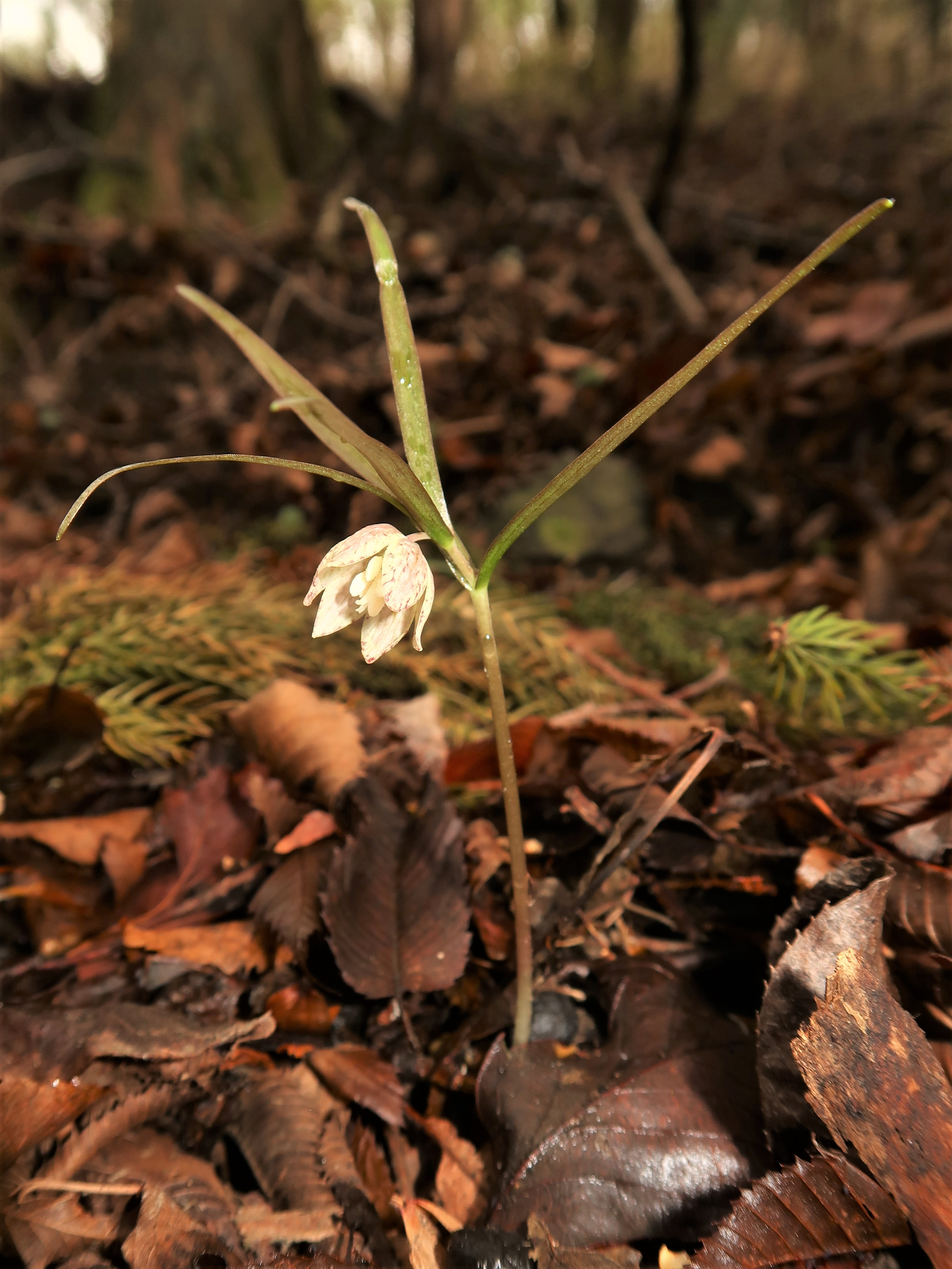 Fritillaria kaiensis, Nanbu town, Yamanashi pref., Japan